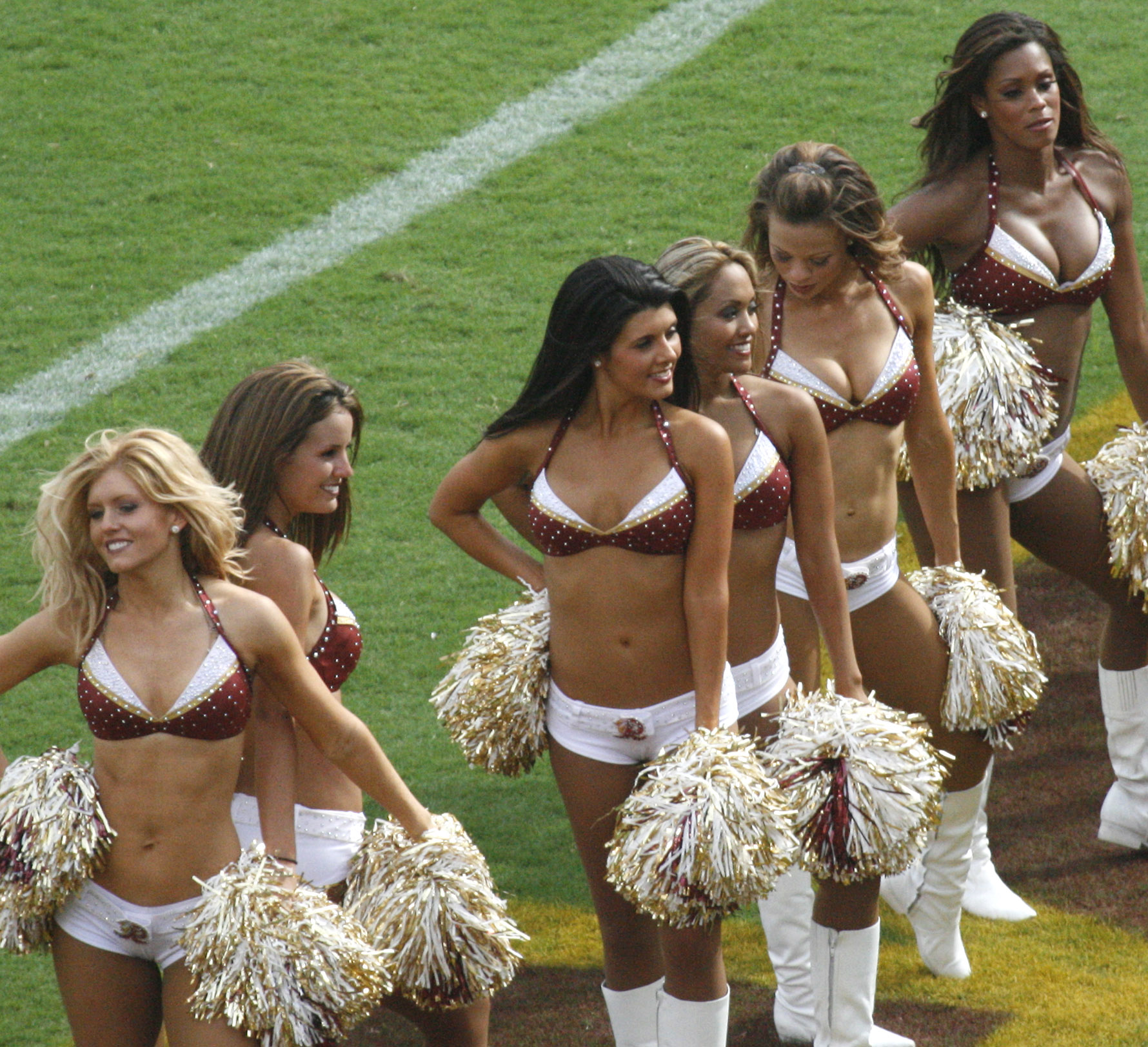 Washington Redskins Cheerleaders.